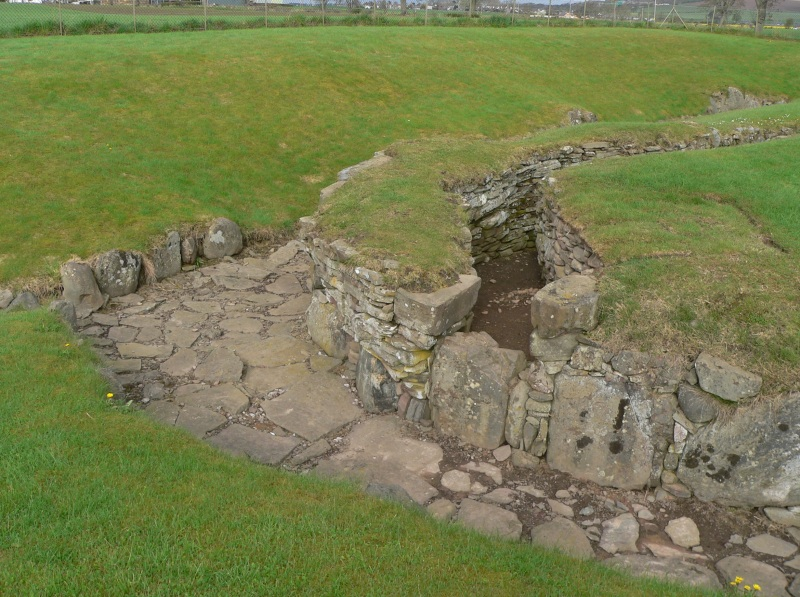 Carlungie Earth House, Angus, Scotland.